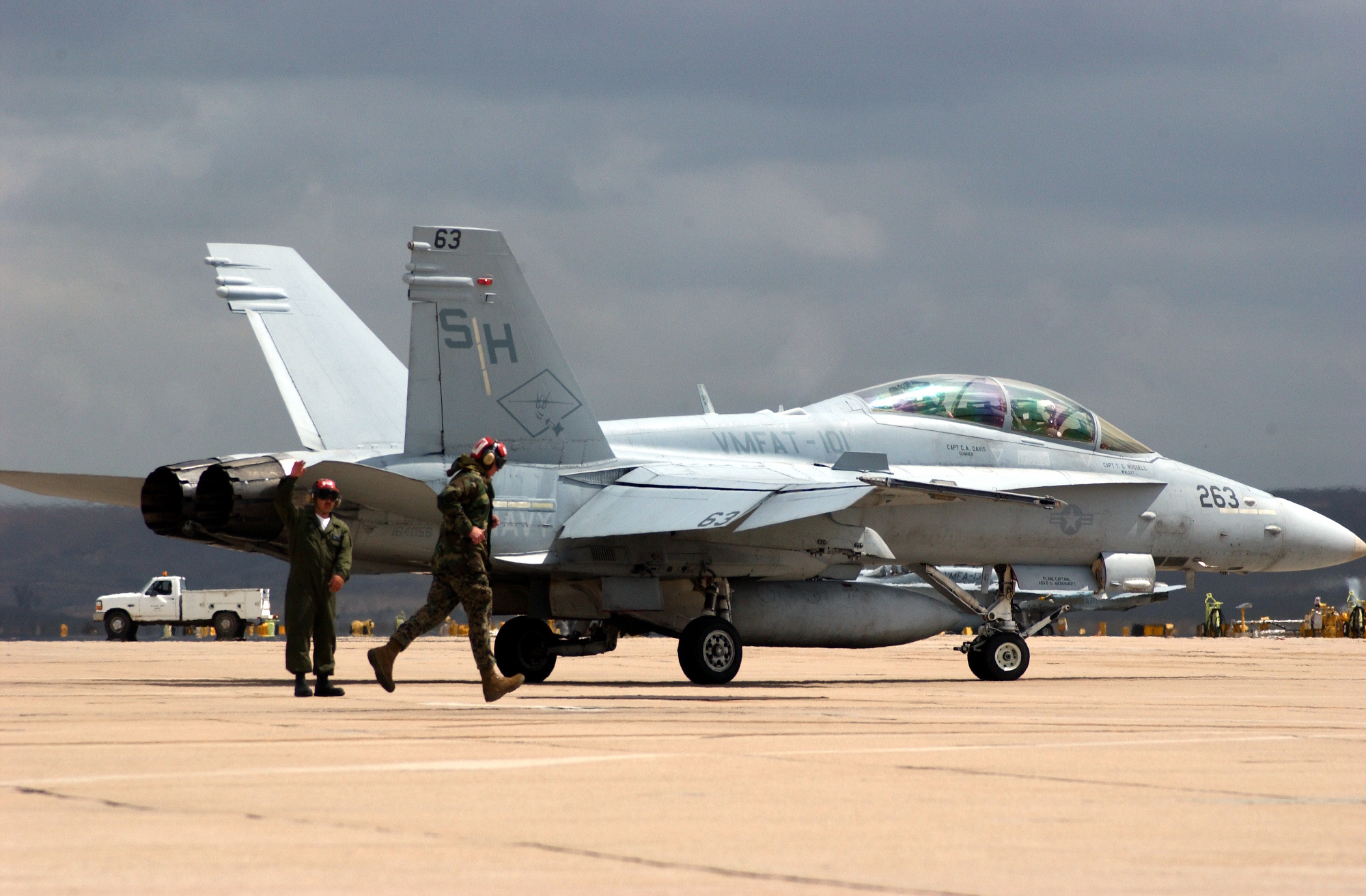 After preparing the F/A-18D Hornet behind them for take off, two ordnance technicians with Marine Fighter Attack Training Squadron 101, Marine Aircraft Group 11, 3rd Marine Aircraft Wing, set up and signal to the next aircraft March 29 during their pre-flight checks on the flight line at Marine Corps Air Station Miramar. Ordnance Marines are responsible for the safe and proper employment of training ordnance used by the squadron to train fighter pilots before they advance to an operational